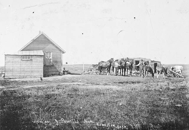 View of J. Powell's farm, Kenaston, Saskatchewan, 1907